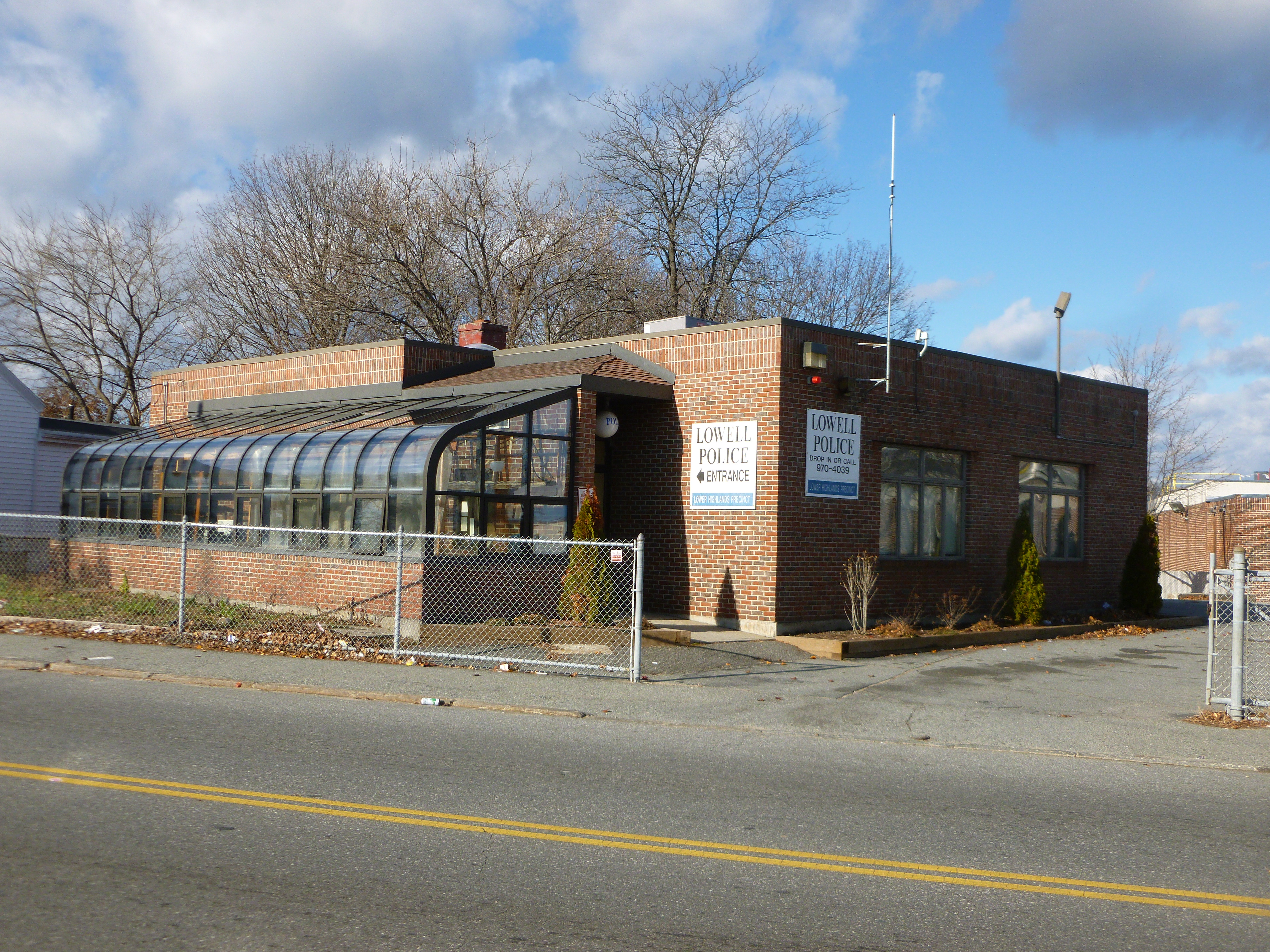 Lower Highlands precinct station of the Lowell Police Department. South and east sides of building shown.